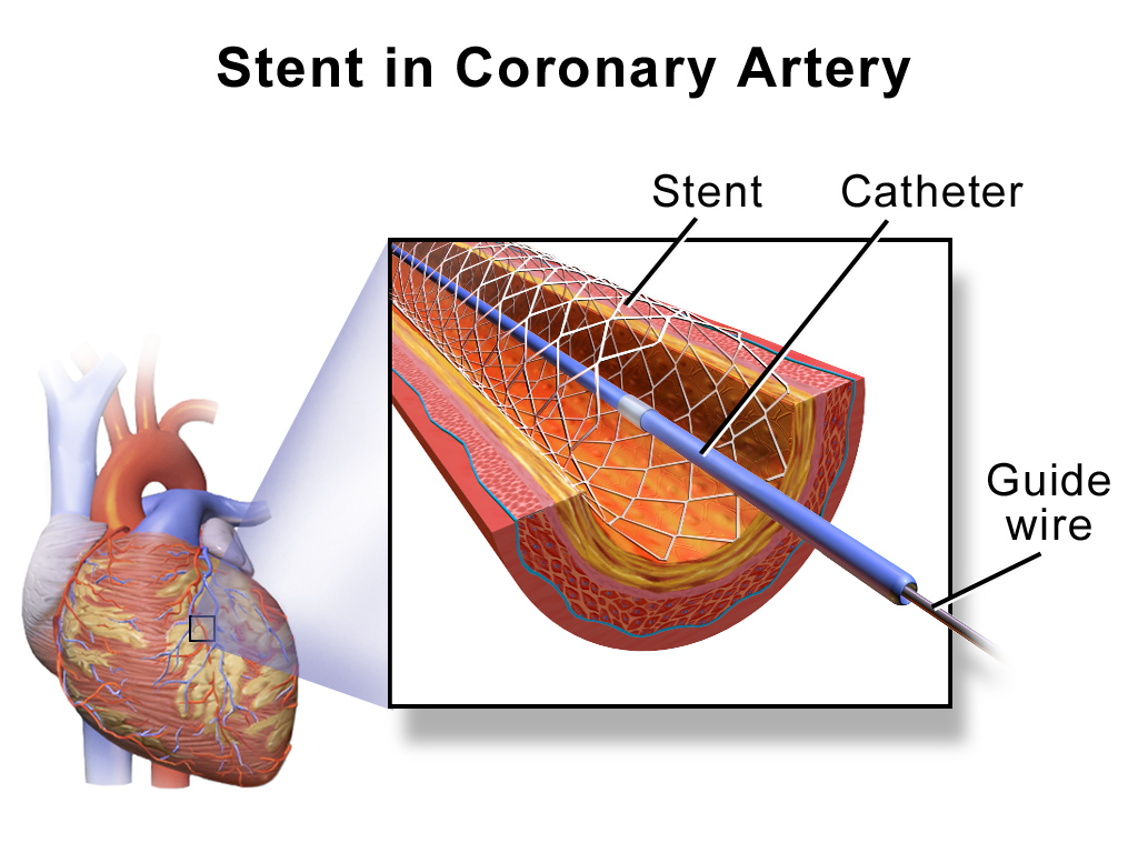 Stent in Coronary Artery. See a related animation of this medical topic.